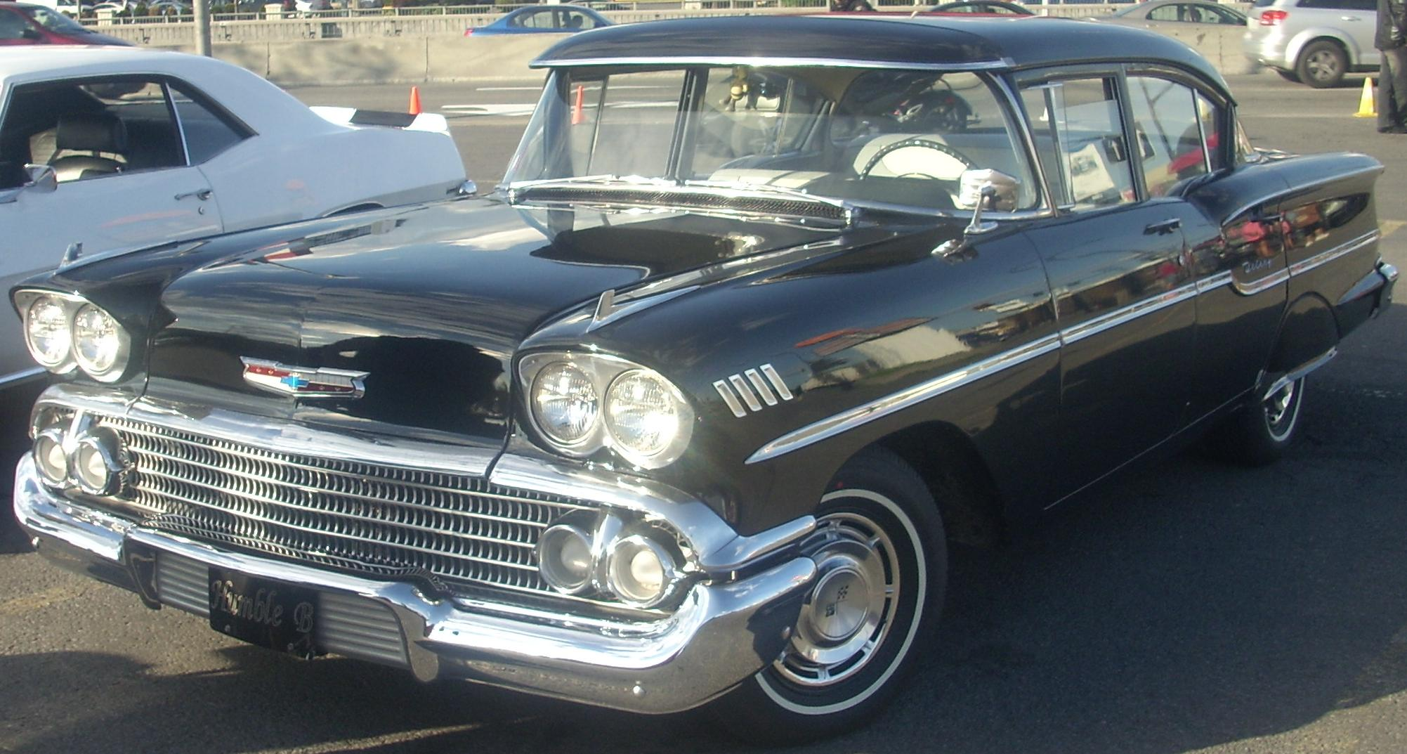 Chevrolet Delray photographed in Montreal, Quebec, Canada at Gibeau Orange Julep.